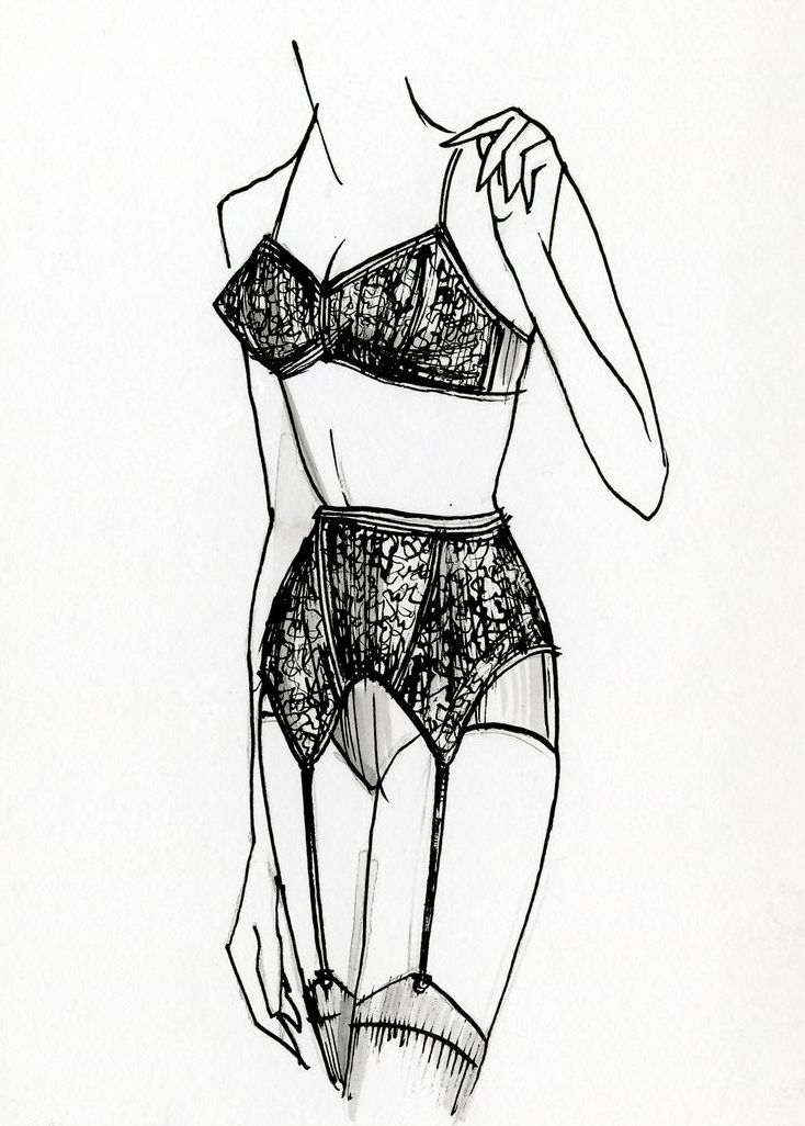 Drawing of the Thesaurus concept : 'garter belt'. Narrow elastic or fabric bands worn around the waist or hips, with suspended straps and fasteners to keep stockings up. For short girdles worn to compress the waist, which often have supporters for stockings, use "waist cinchers." (AAT)